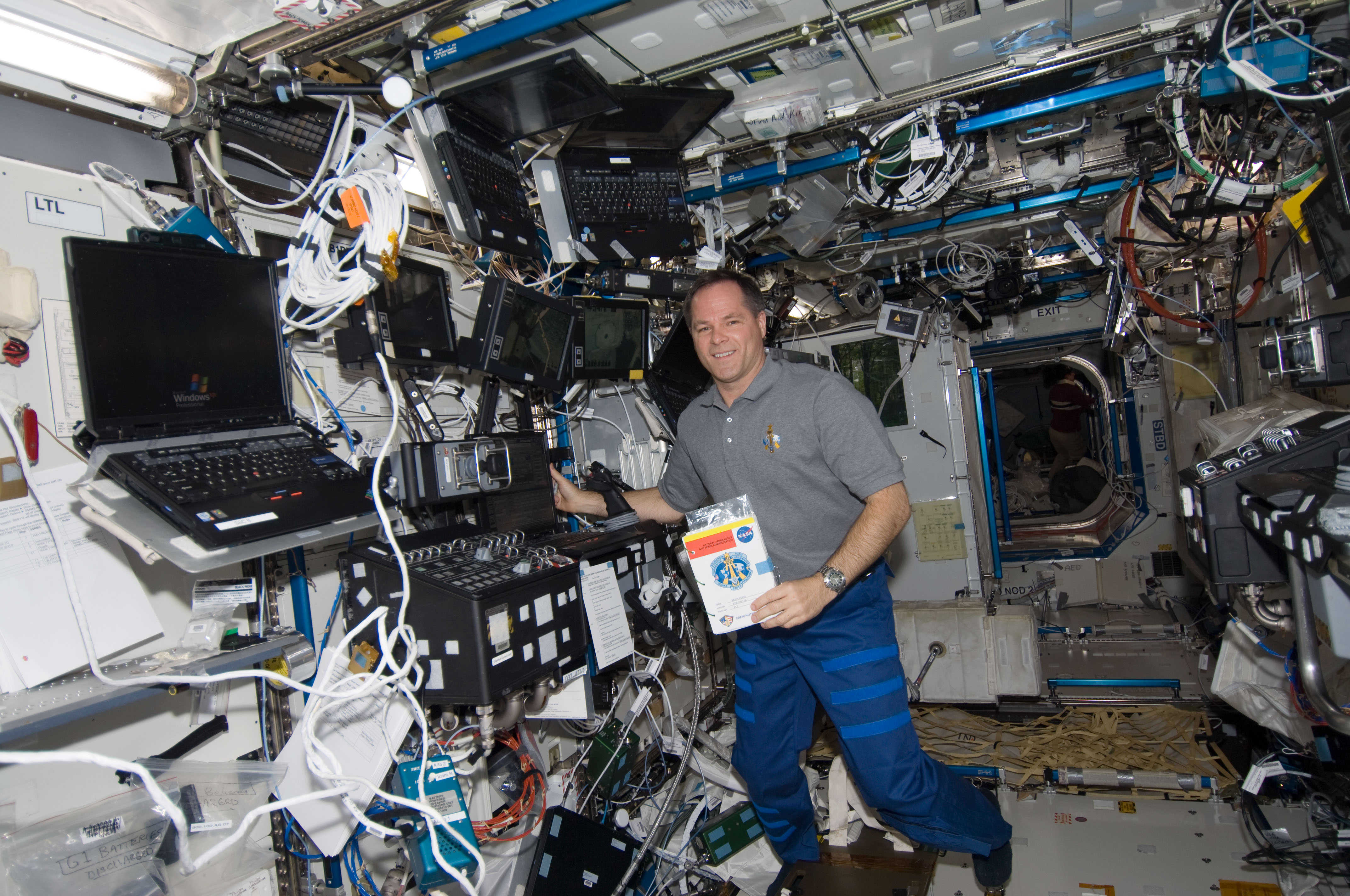 NASA astronaut Kevin Ford, STS-128 pilot, is pictured in the Destiny laboratory of the International Space Station while Space Shuttle Discovery remains docked with the station.